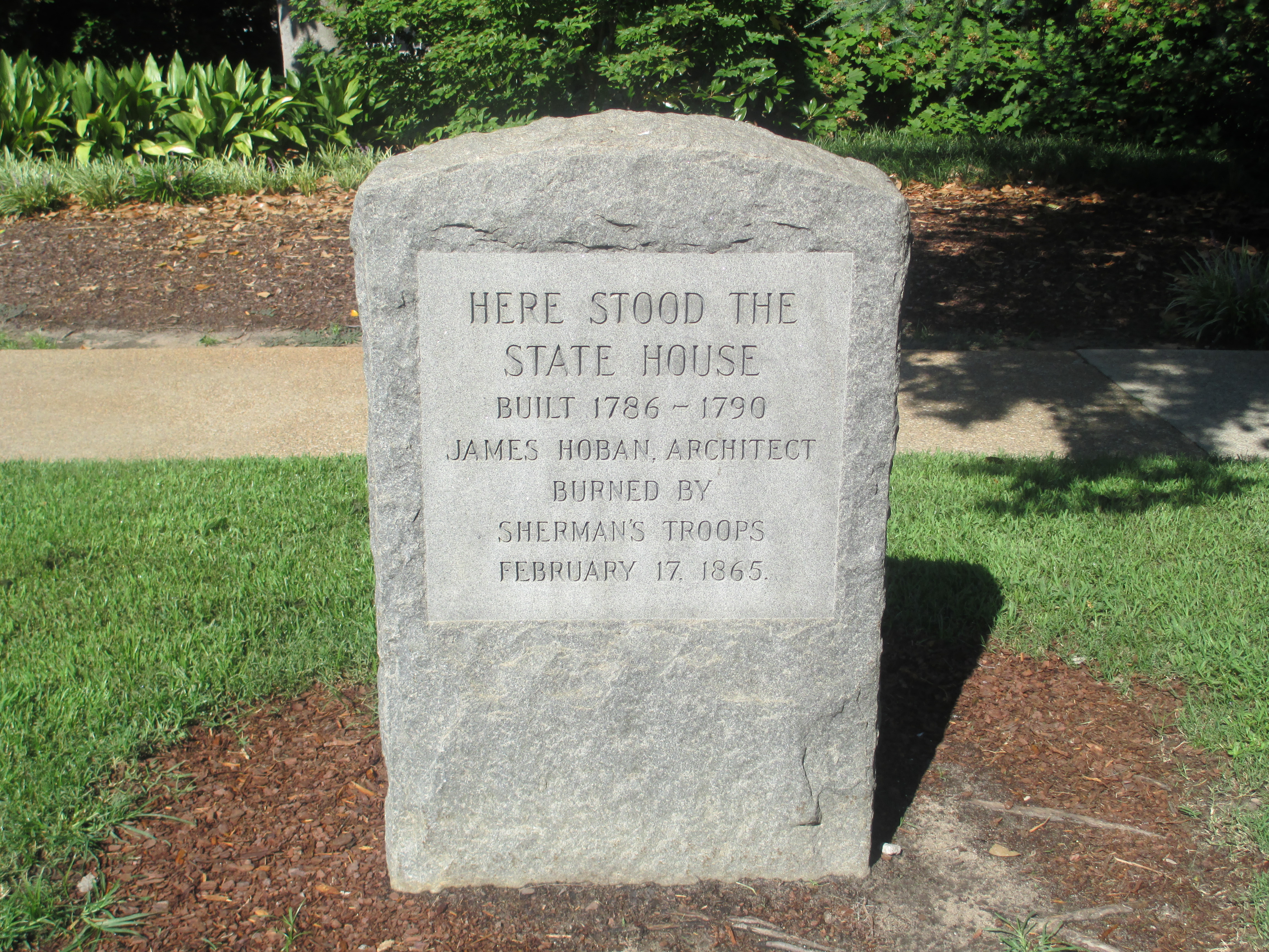 I took photo of this monument with Canon camera at state House grounds in Columbia, SC.